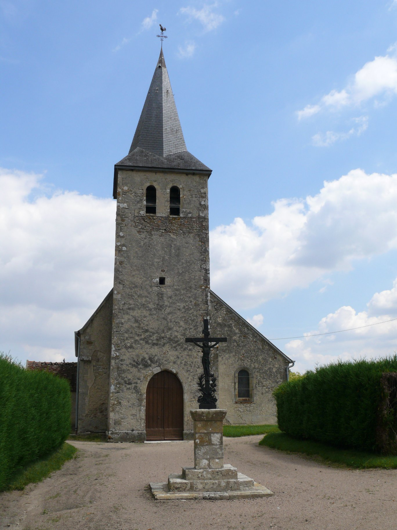 Saint-Prix-and-Saint-Loup's church of Courcy-aux-Loges (Loiret, Centre-Val de Loire, France).